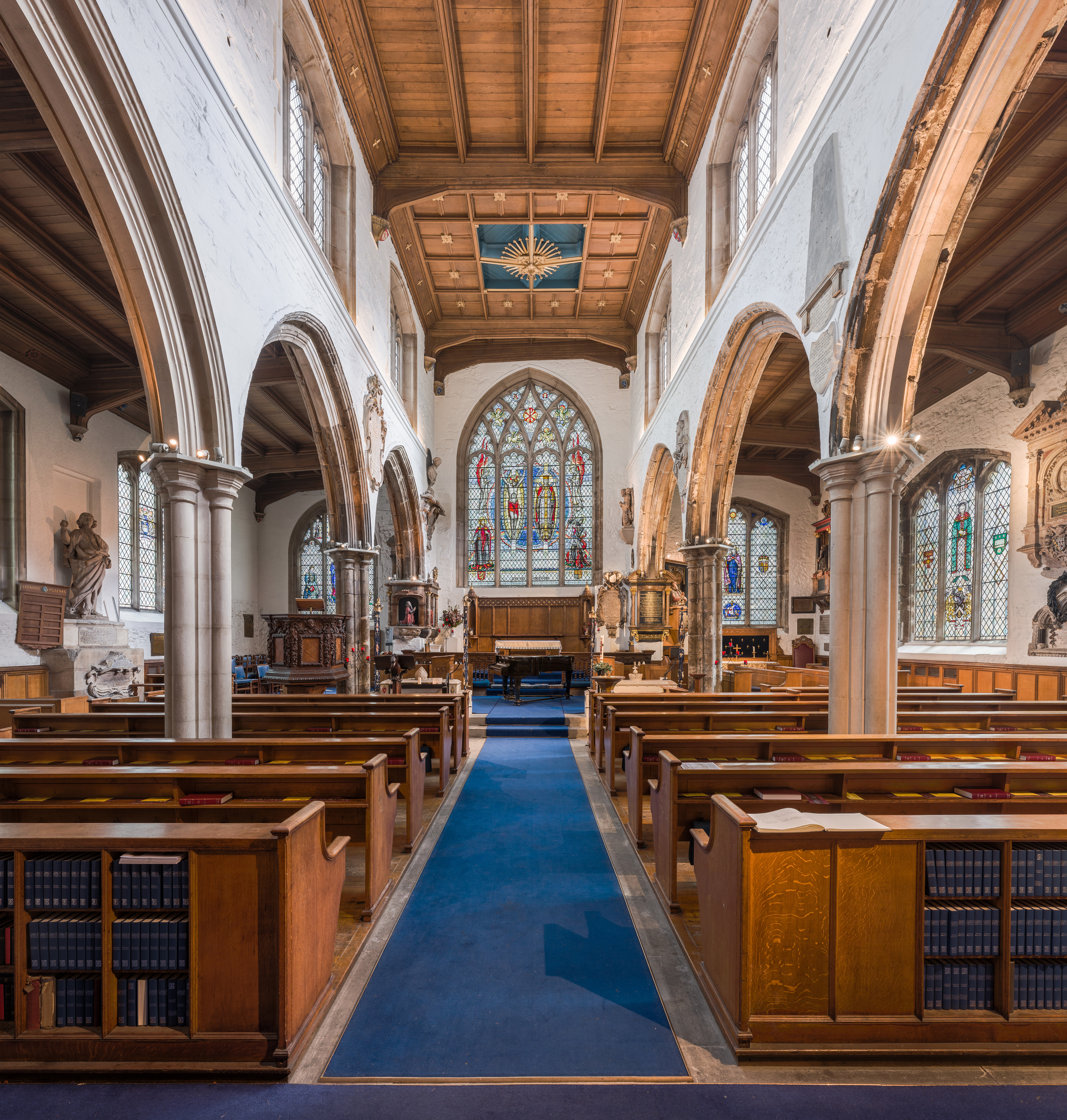 The interior of St Olave Church, Hart Street, London, England.